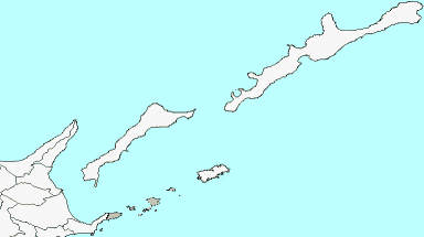 Location of Habomai Islands, Russia. Claimed by Japan.